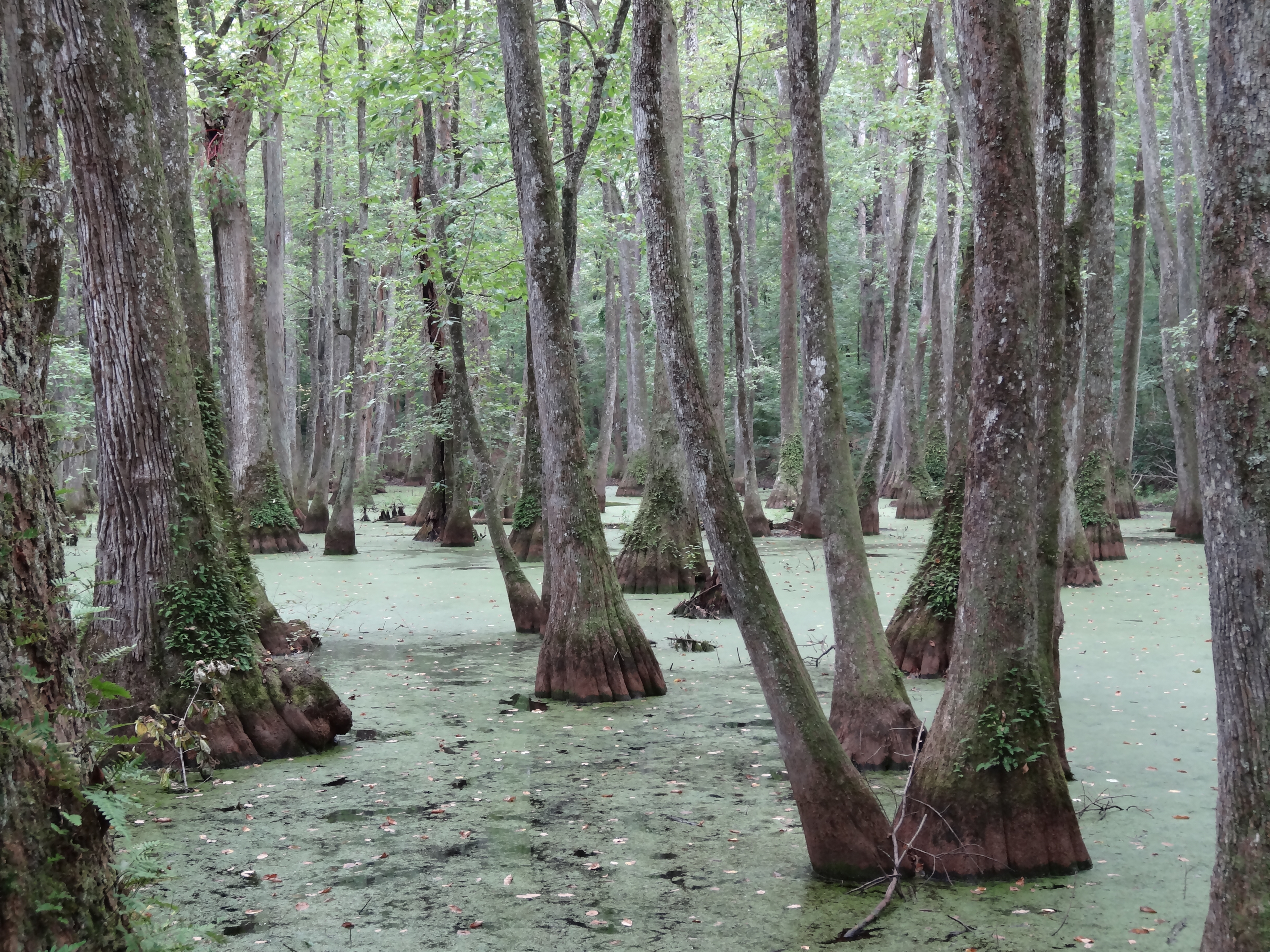 Mississipi Cypress Swamp 2